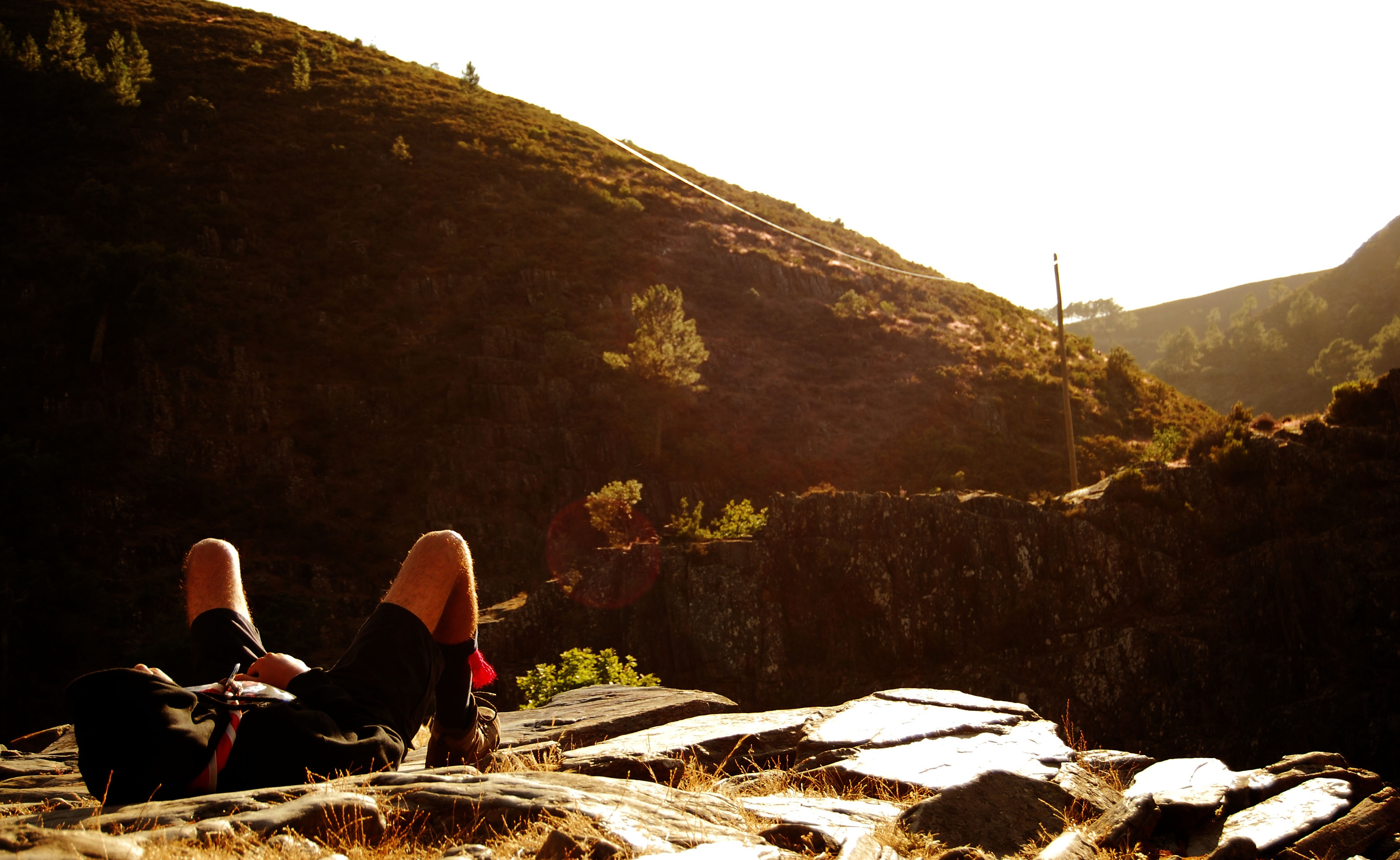 CNE - caminheiros